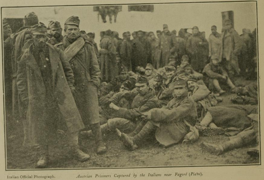 Austrian POWs captured by Italy. World War I Original caption: Austrian Prisoners Captured by the Italians near Fagoré (Pia've). Italian Official Photograph.